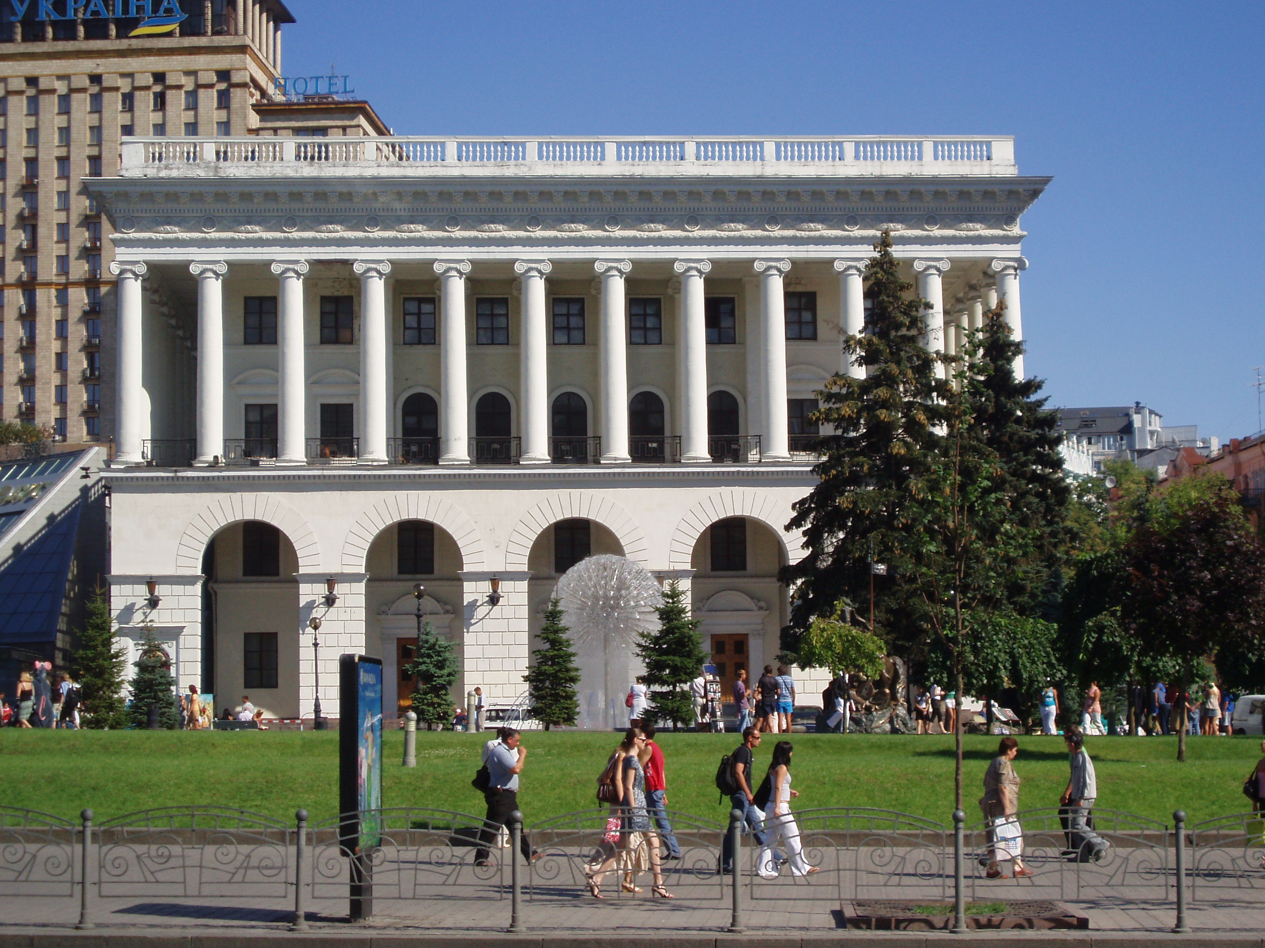 The building of the Ukrainian National Academy of Music — in Kiev.